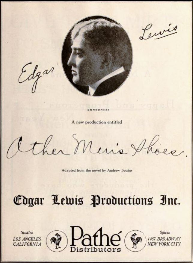 Advertisement announcing the production of the American drama film Other Men's Shoes (1920) with film director Edgar Lewis, on page 45 of the December 27, 1919 Exhibitors Herald.